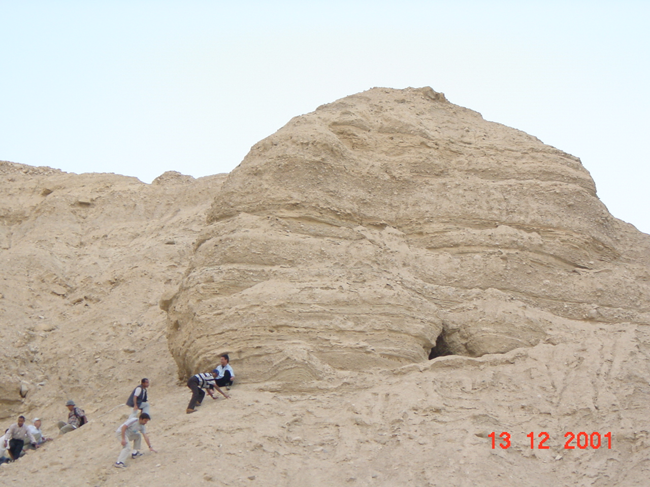 7th Cave, Waddy Qumran, Dead Sea